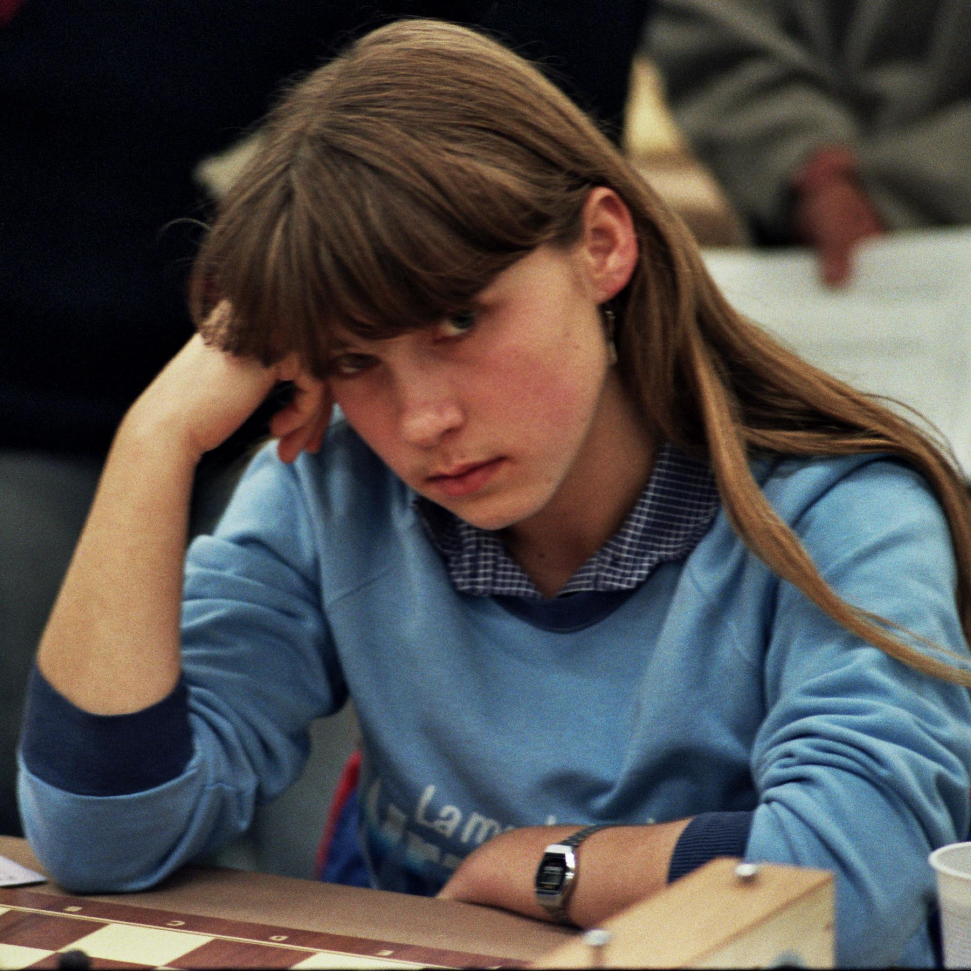 Idliko Madl, Chess Olympiad 1984 in Saloniki, Photographer Gerhard Hund.